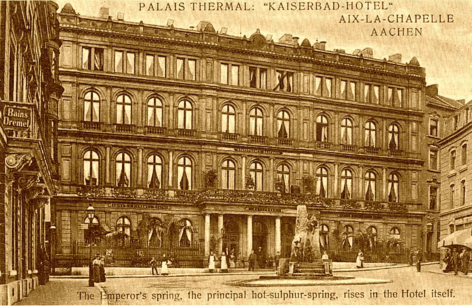 The Emperor's bath at Aachen on the Büchel (architect Friedrich Ark)